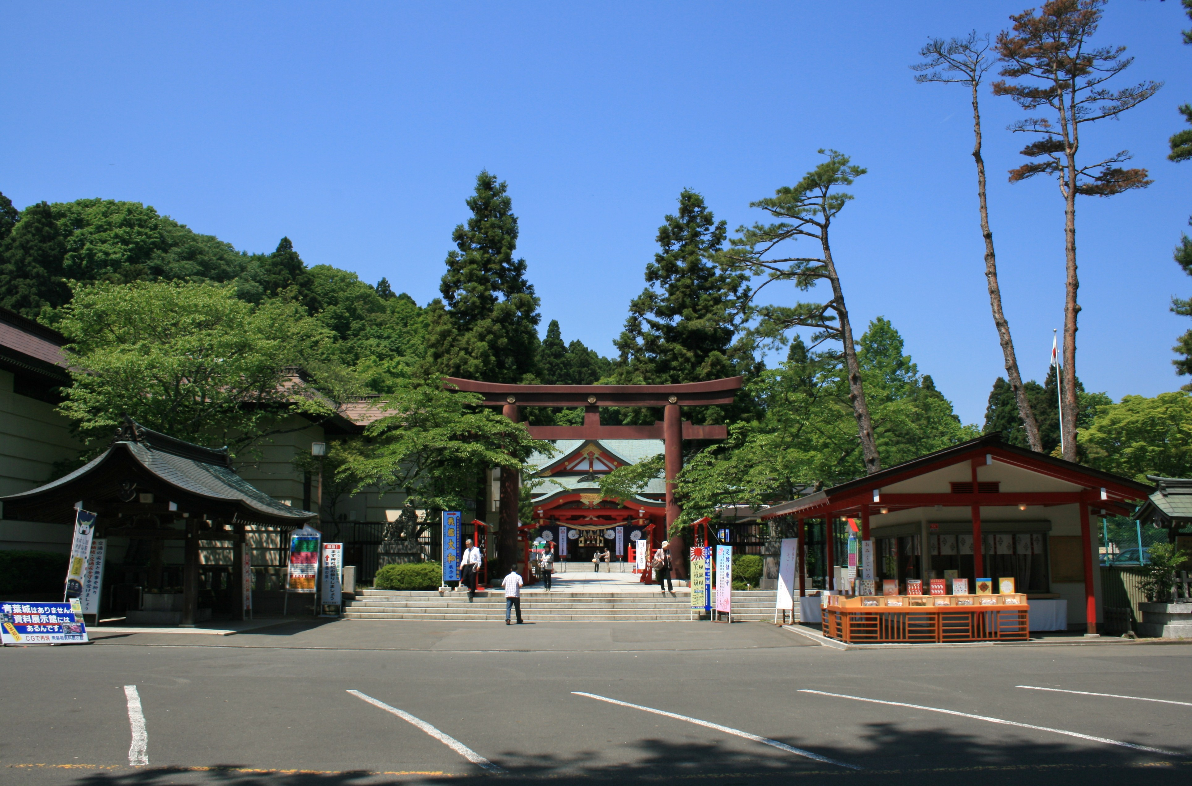 Overall view of Miyagi Prefecture Gokoku Shrine (Miyagi-ken Gokoku-jinja). It is in Tenshudai, Kawauchi, Aoba Ward (Aoba-ku), Miyagi Prefecture (Miyagi-ken), Japan.